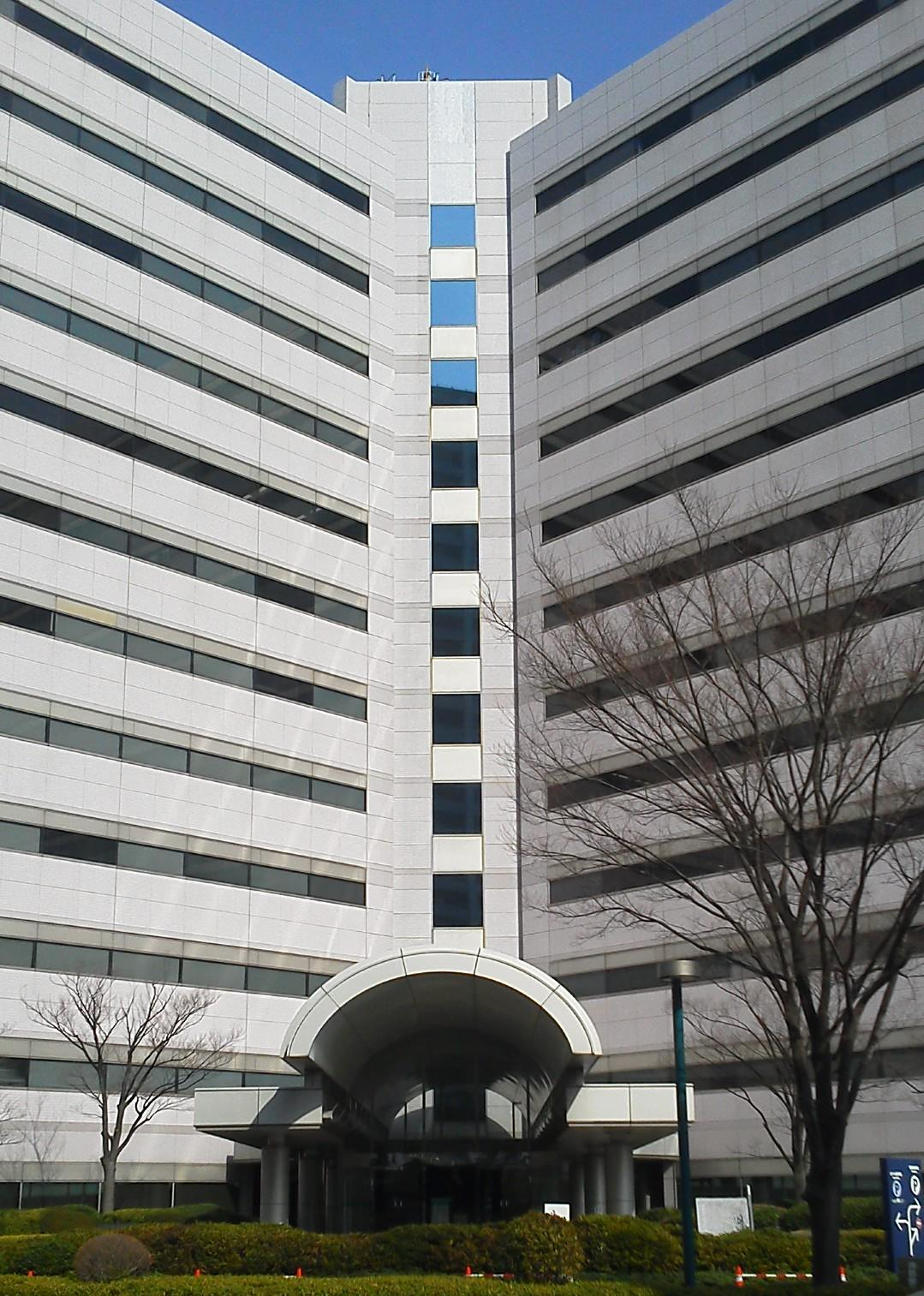 R&D Building of Kanagawa Science Park, Takatsu-ku, Kawasaki, Japan.